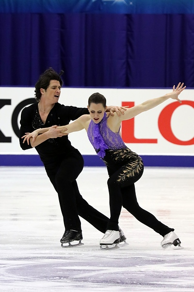 Tessa Virtue and Scott Moir at the 2016 NHK Trophy